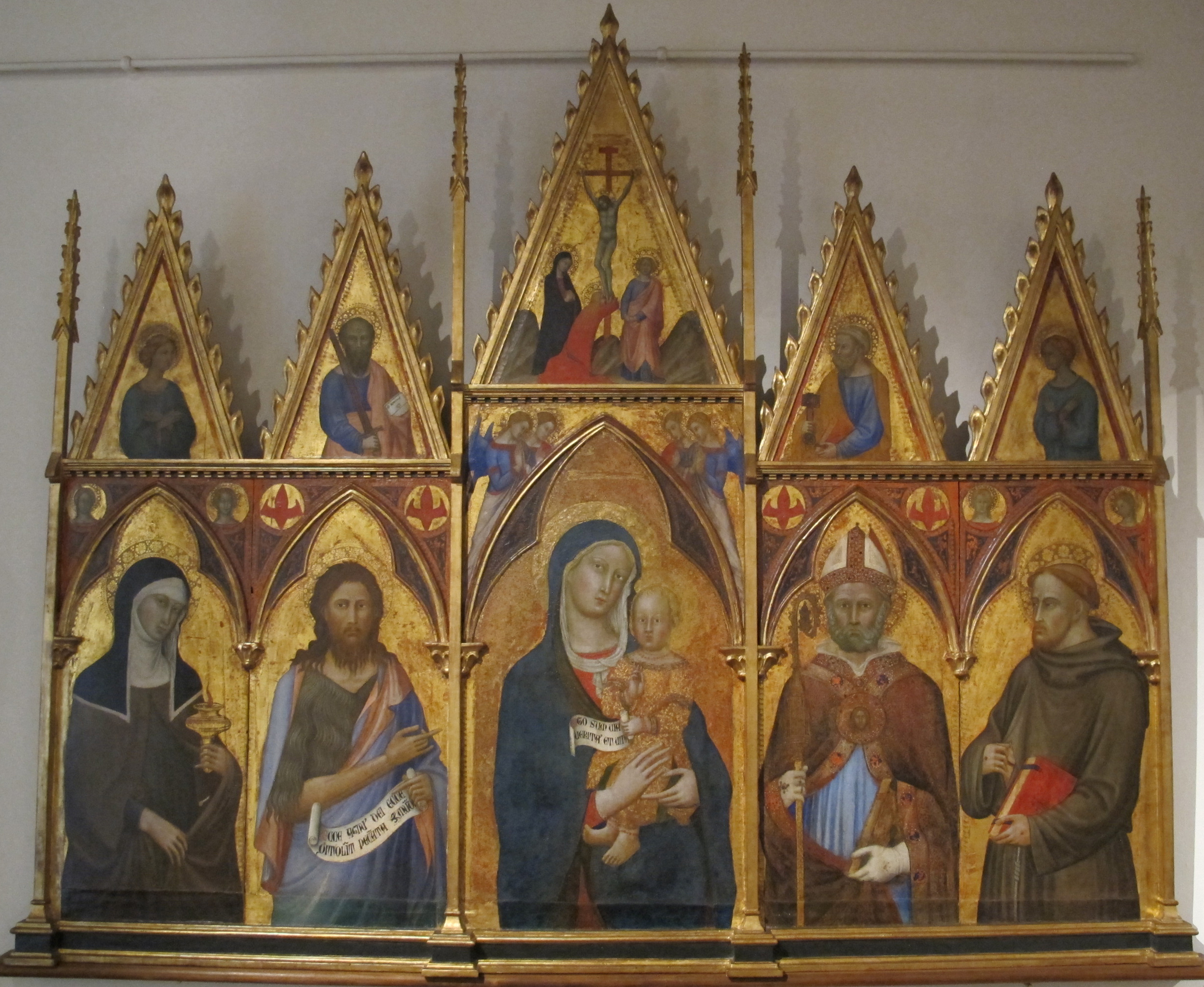 Painting in the National Pinacotheque, Siena